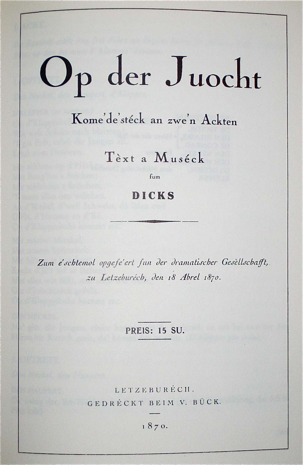 Edmond de la Fontaine (1823 - 1891): Op der Juocht (1870) - Cover (facsimile).